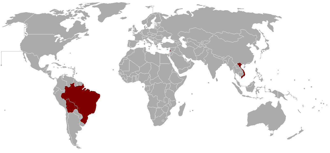 Map showing placements at the Mister International pageant. Key on graphic shows colour coding for break down of placements.